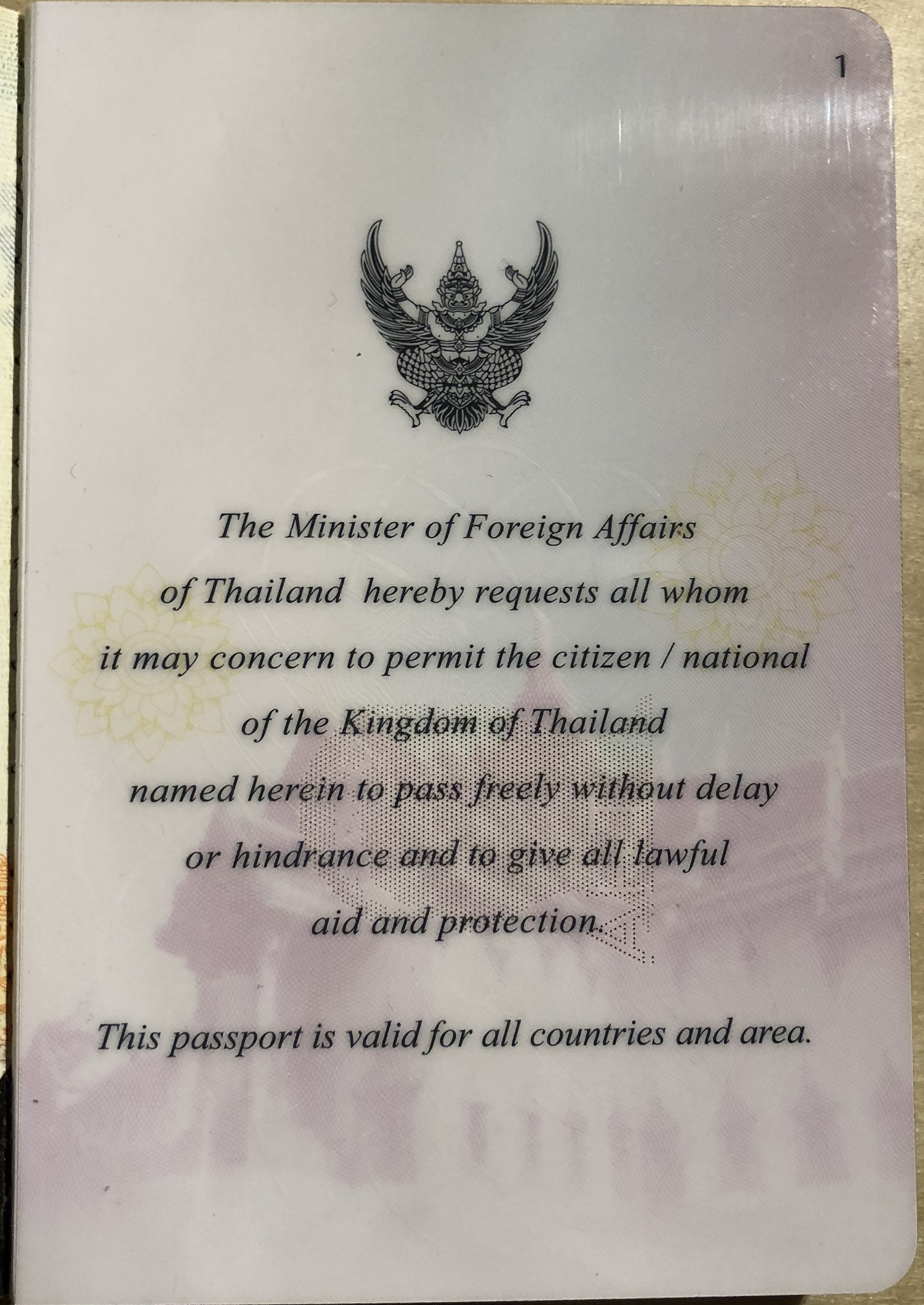 The note inside Thai Passport which says "The Minister of Foreign Affairs of Thailand hereby requests all whom it may concern to permit the citizen / national of the Kingdom of Thailand named herein to pass freely without delay or hindrance and to give all lawful aid and protection. This passport is valid for all countries and area."